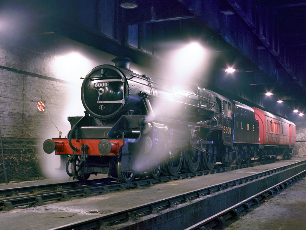 London Midland and Scottish Railway Stanier 5P5F 4-6-0 'Black Five' class locomotive number 5000 stands inside Northwich Motive Power Depot after running light engine from Chester. Saturday 23rd October 1982